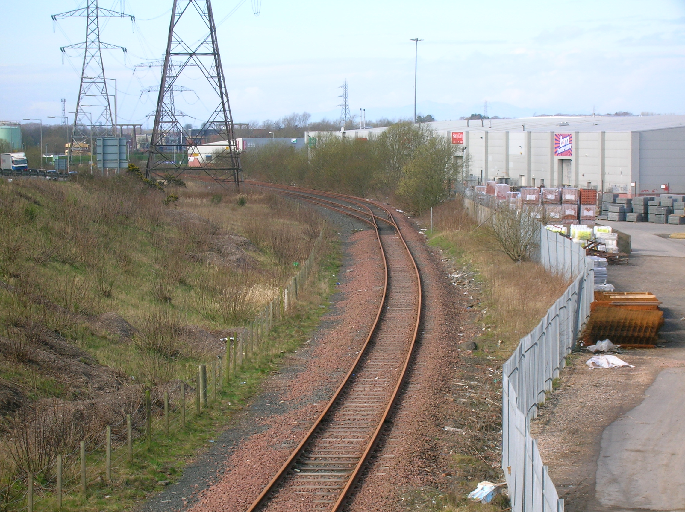 The Scotfuels rail link at Riccarton near Kilmarnock, East Ayrshire, Scotland